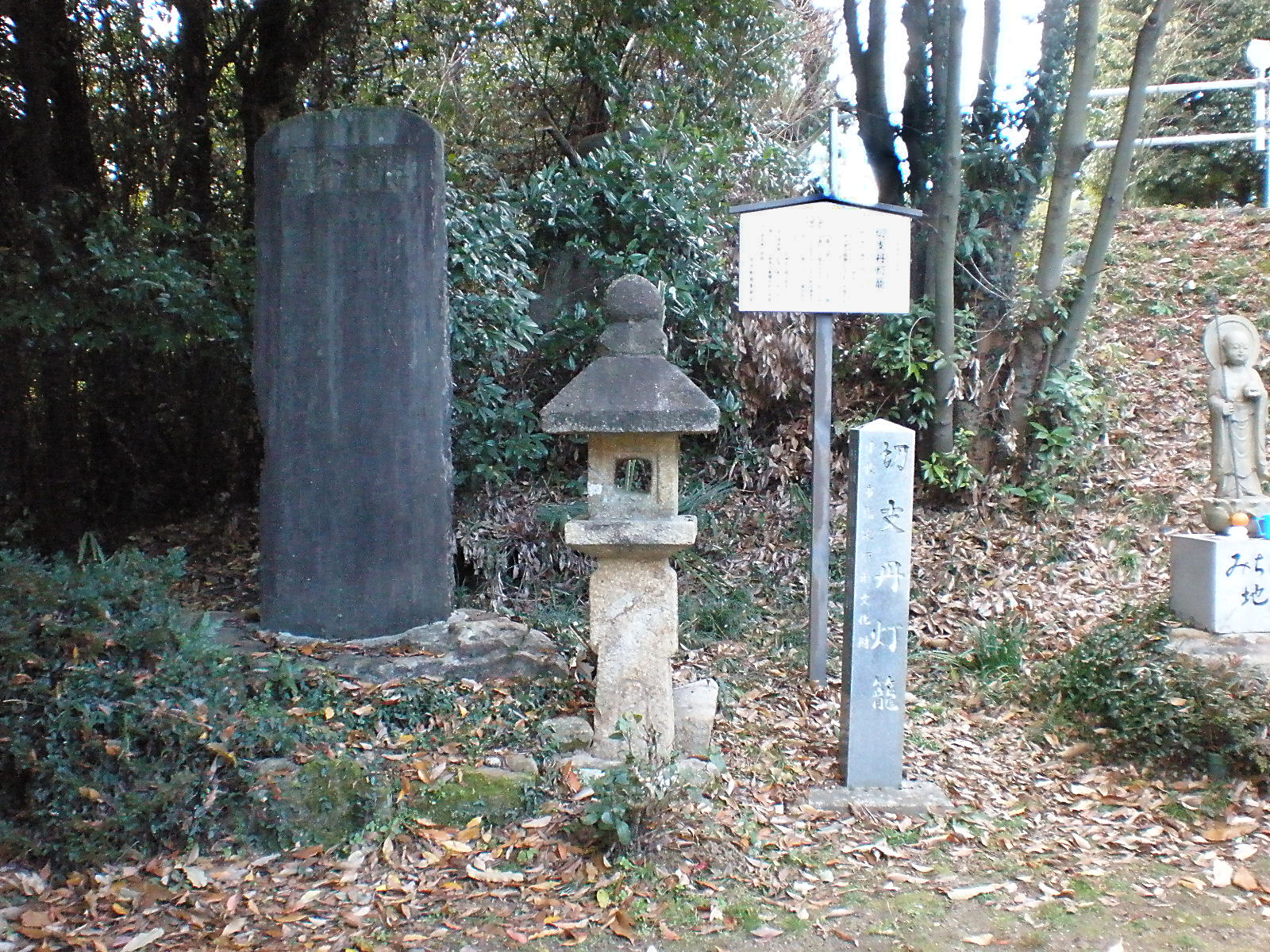 The garden lantern made by Christian is at Kannon-temple in Komaki, Aichi Pref.